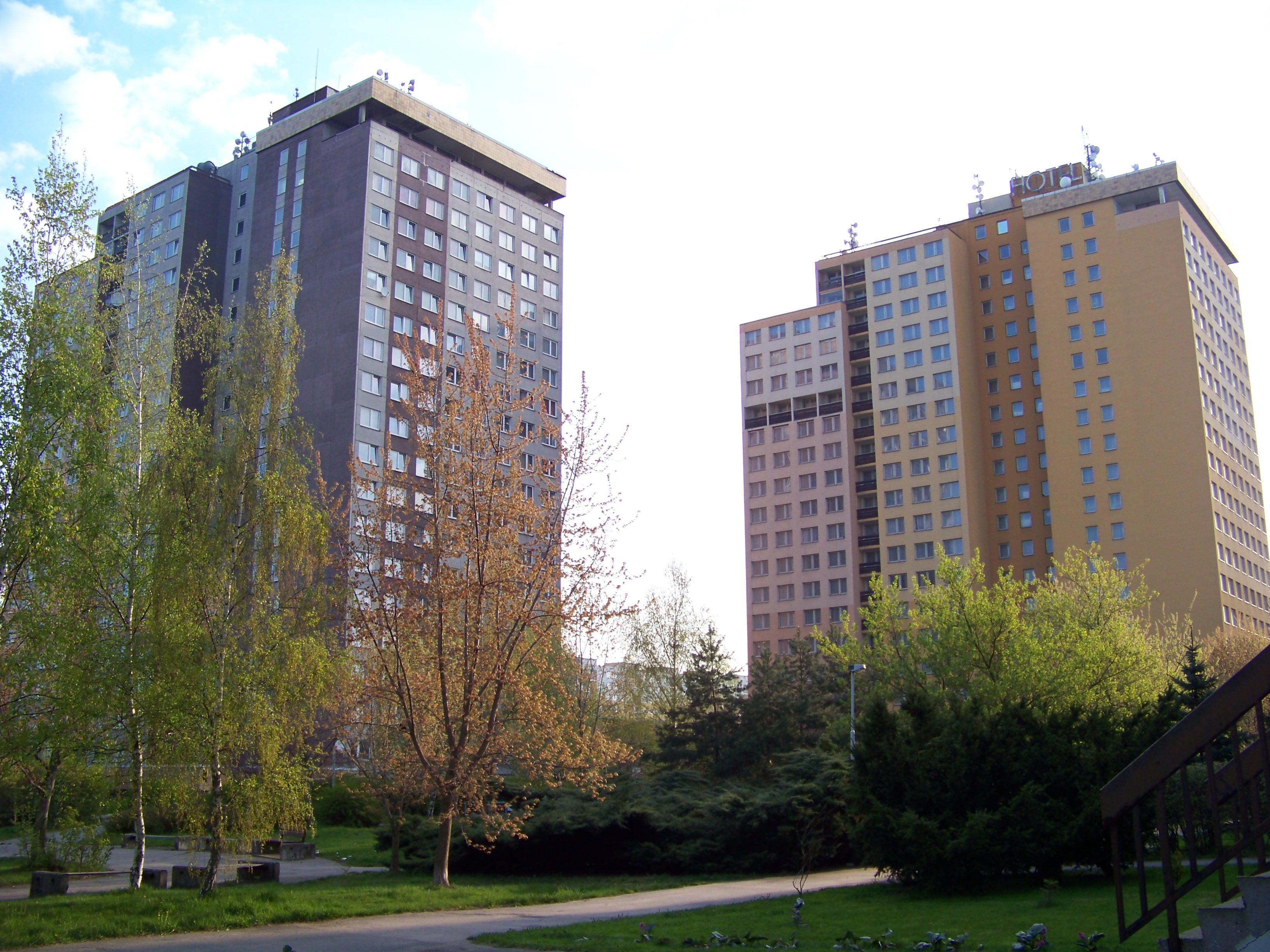 Chodov, Prague, the Czech Republic. Opatov Housing Estate. Hotel Veritas and Hotel Opatov.